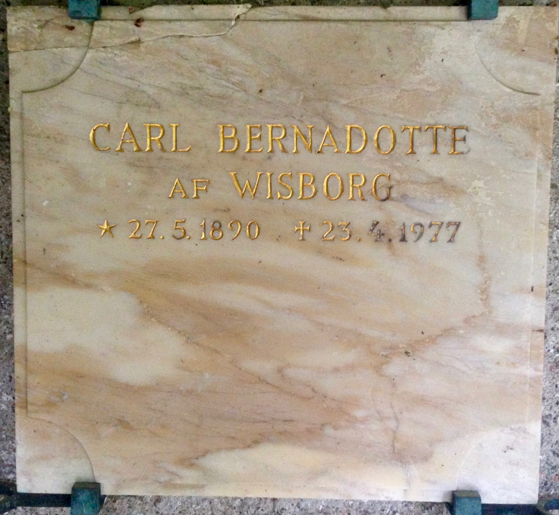 Carl Bernadotte af Wisborg grave